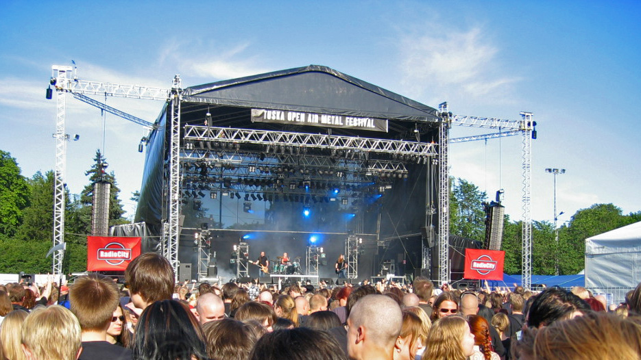 Tuska Open Air Metal 2004 Main stage on Friday, Kotiteollisuus band playing.